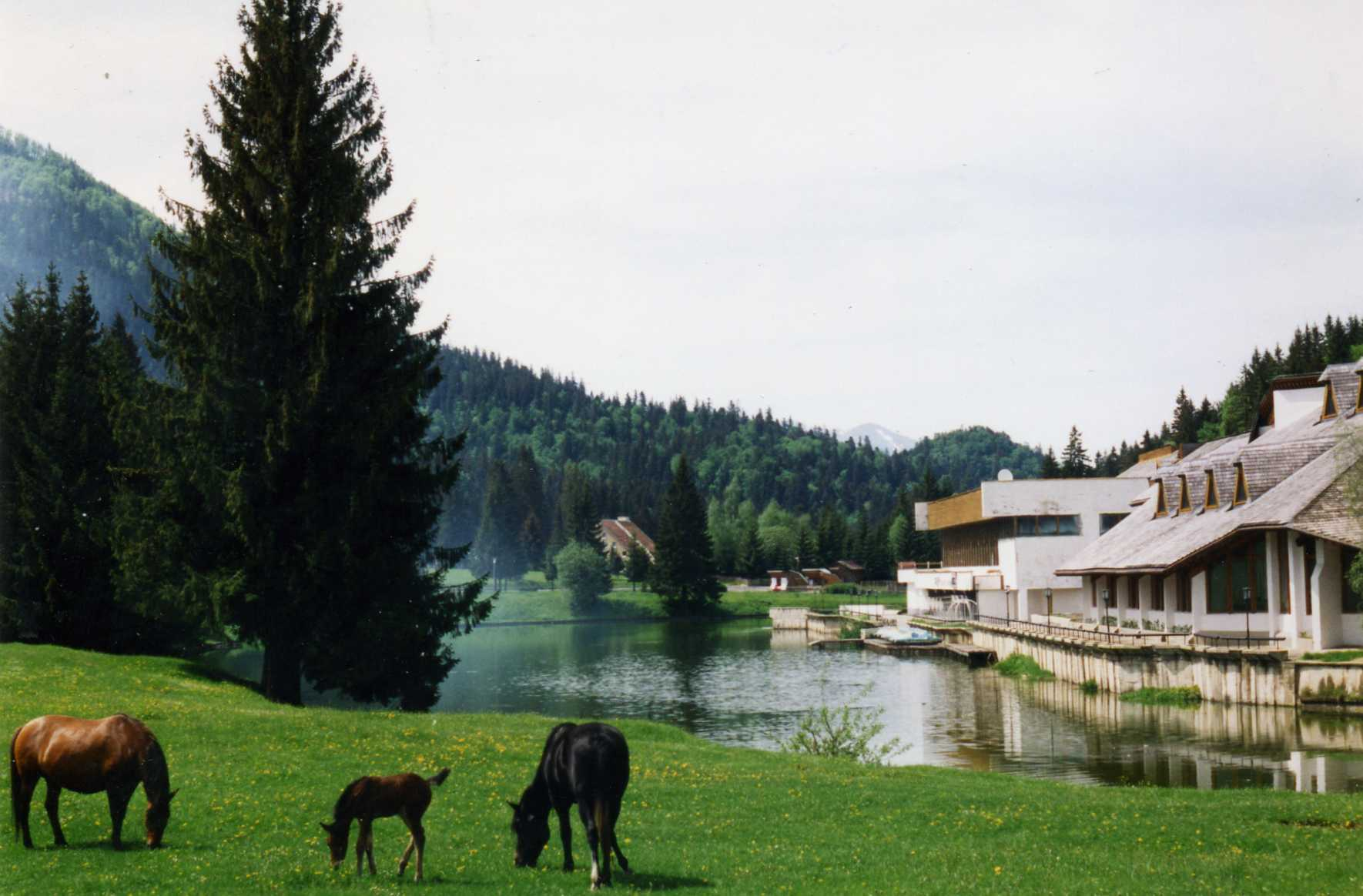 A nice concrete social centre beside the lake